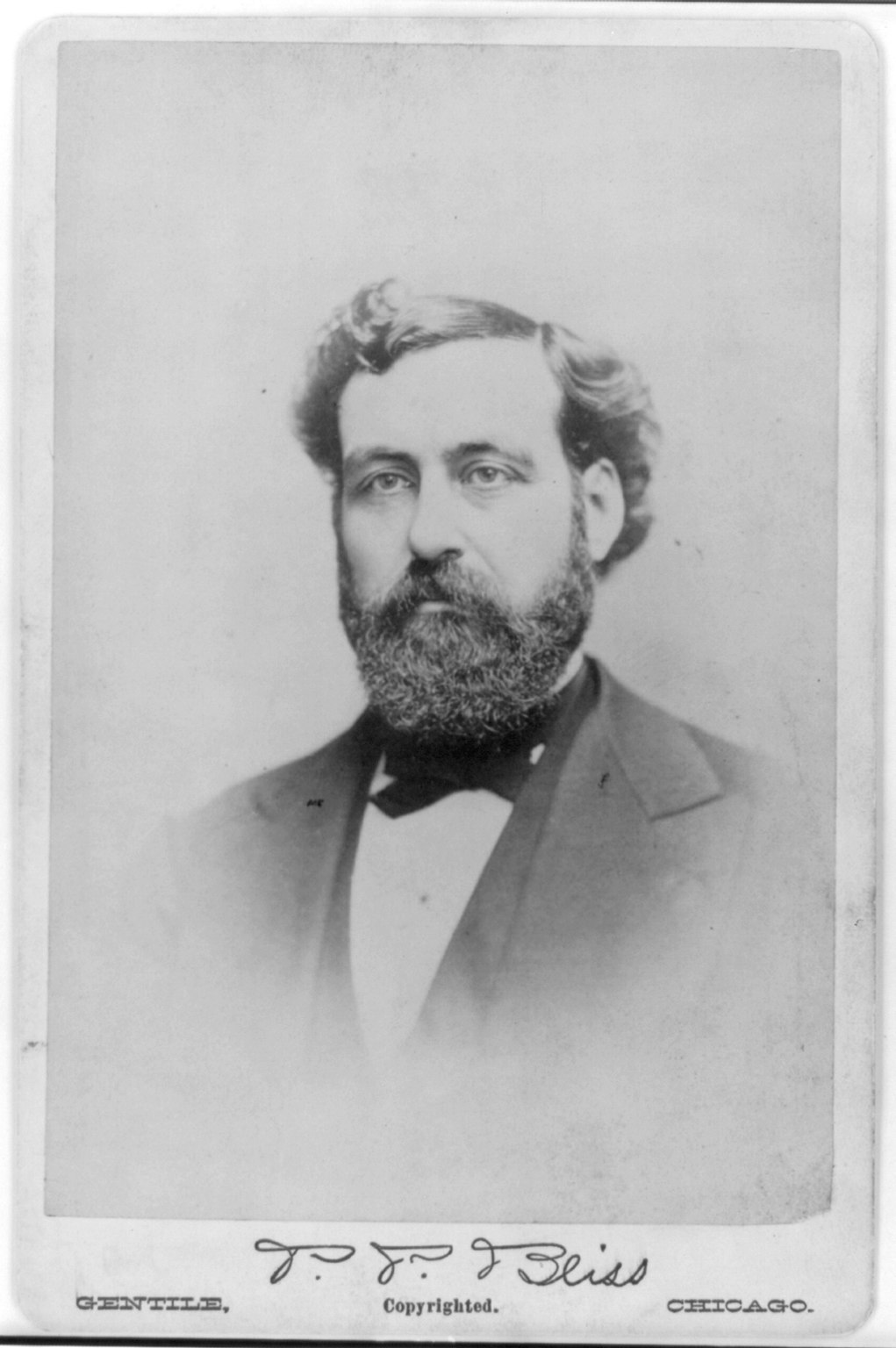 Title: Philip Paul Bliss, 1838-1876, head-and-shoulders portrait, facing left Abstract/medium: 1 photographic print.